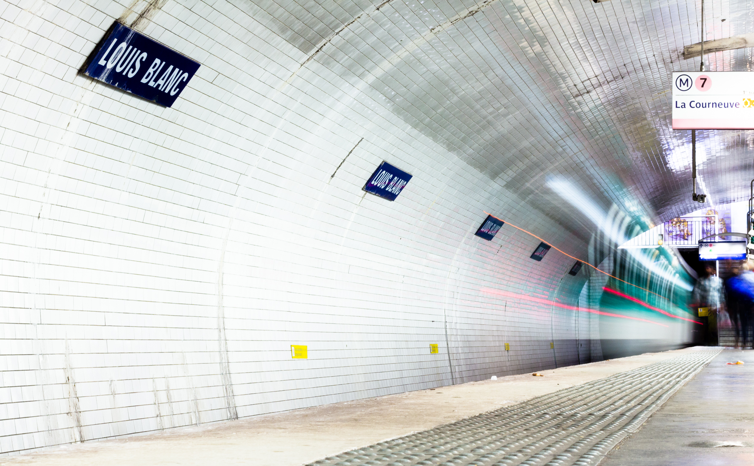 Louis blanc metro station (Paris)